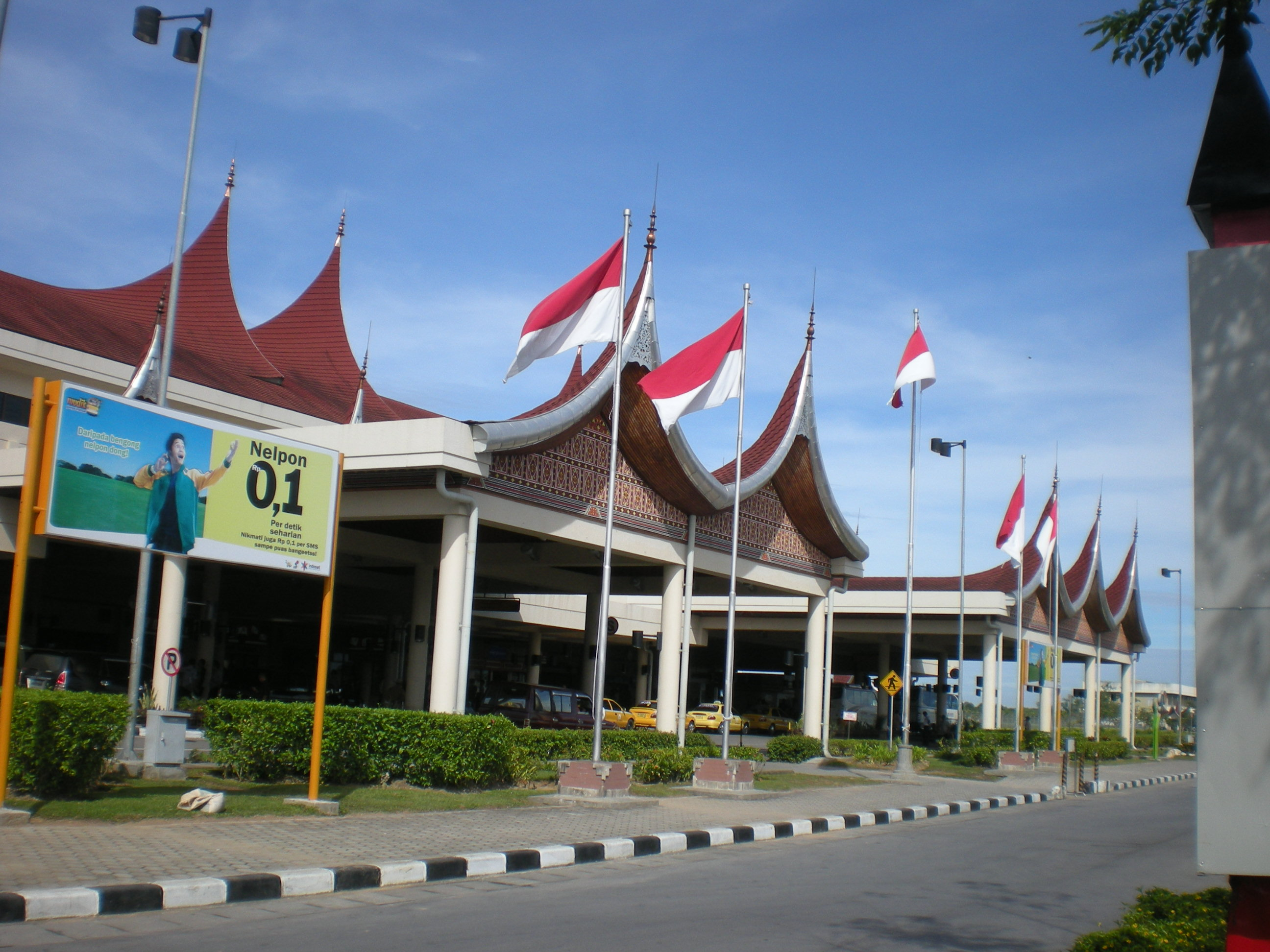 Minangkabau International Airport